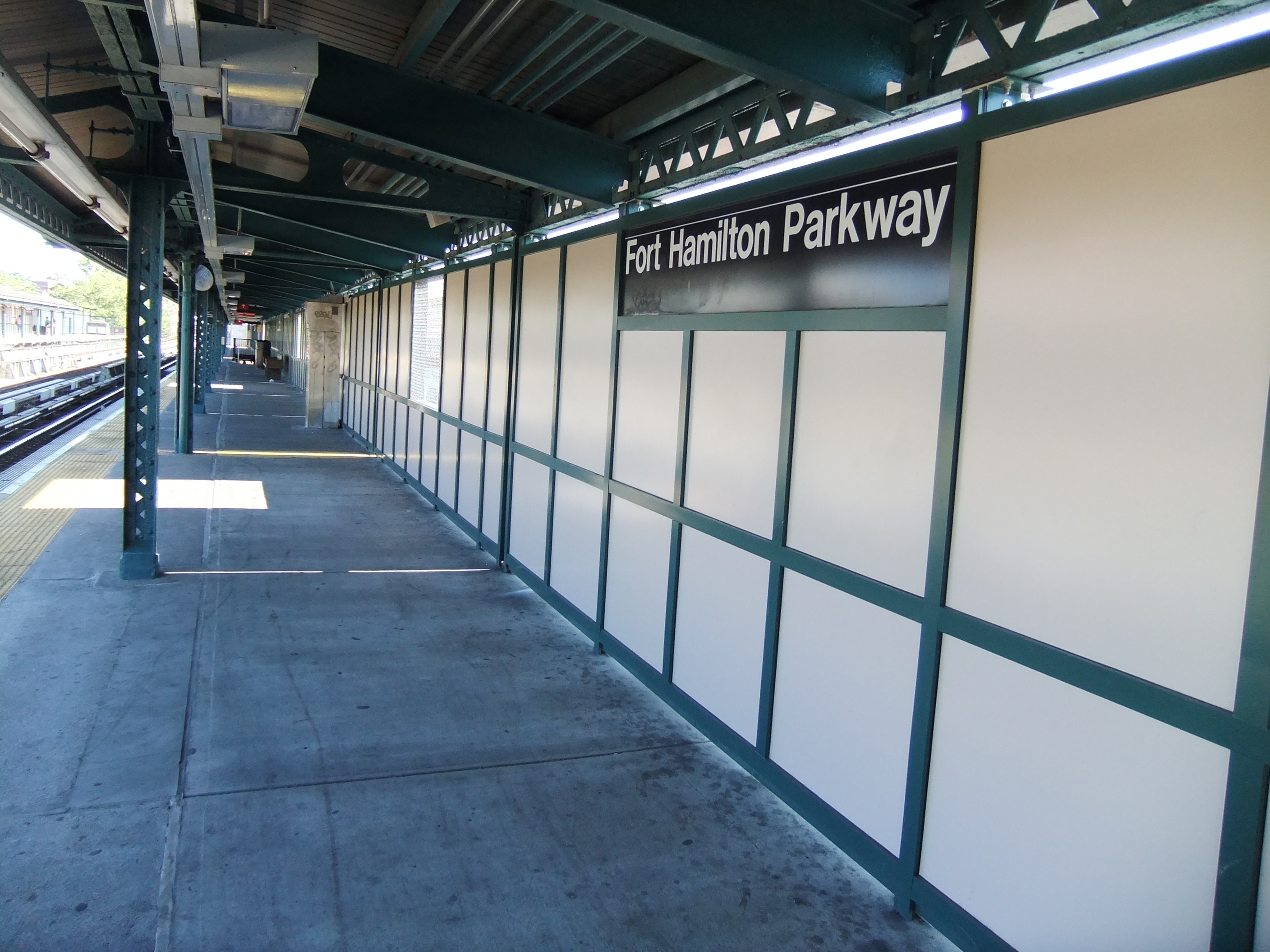 Fort Hamilton Pkwy (West End), Coney Island bound platform.